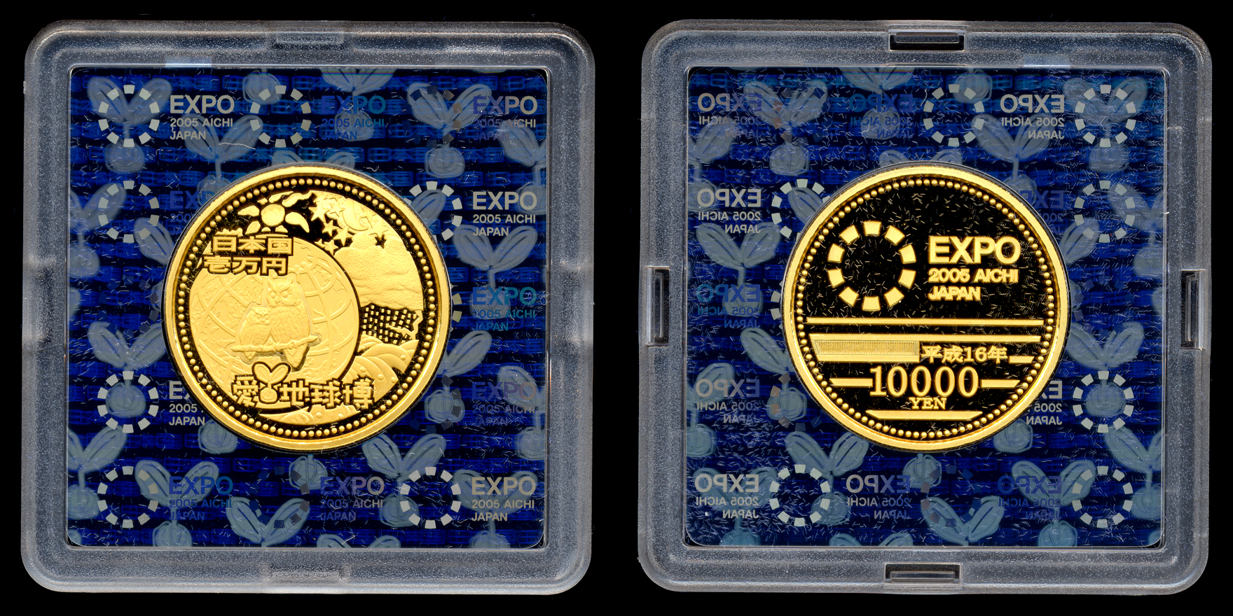 Aichi-Expo2005-10000yen